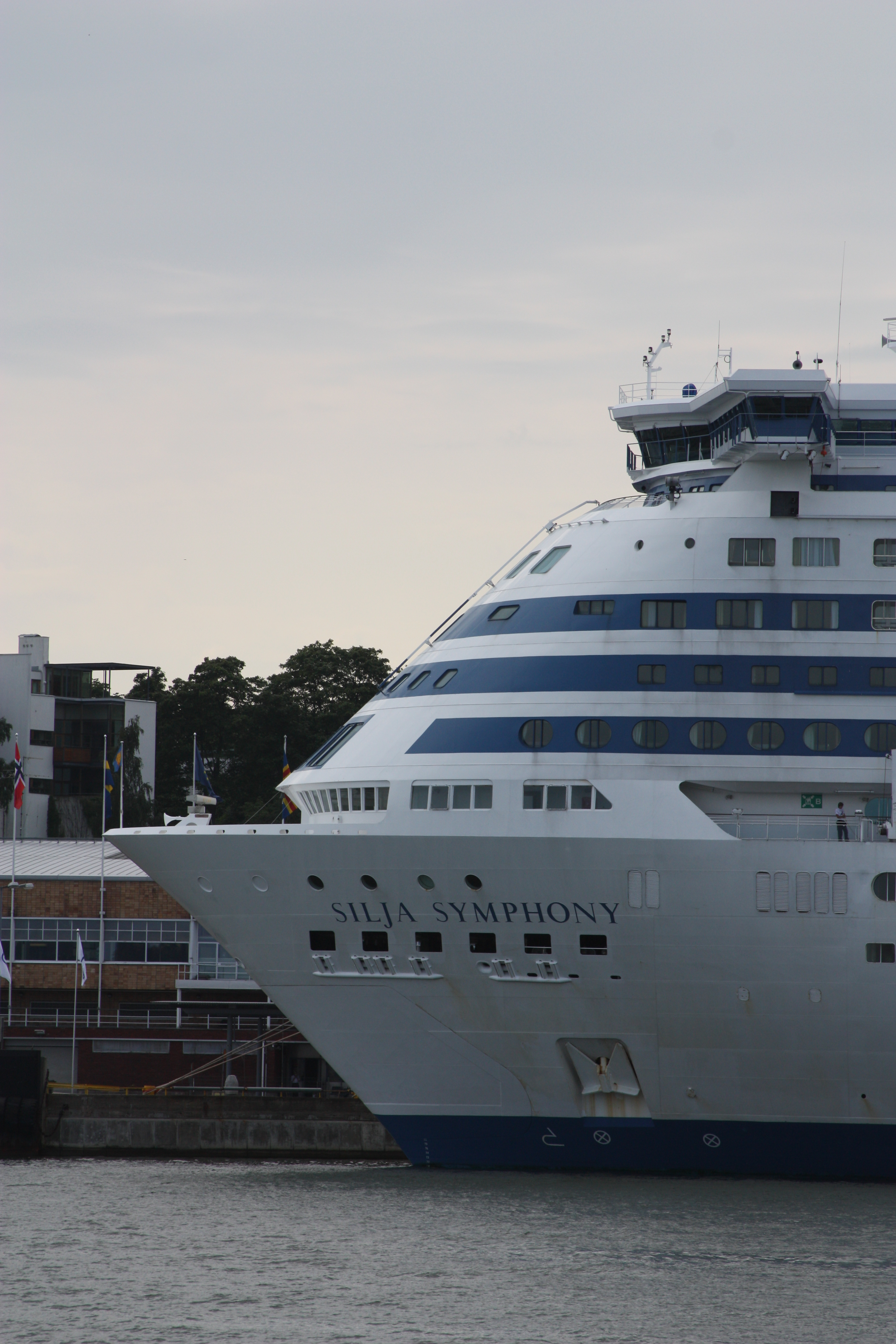 MS Silja Symphony on Olympia Quay in South Harbour, Helsinki, Finland